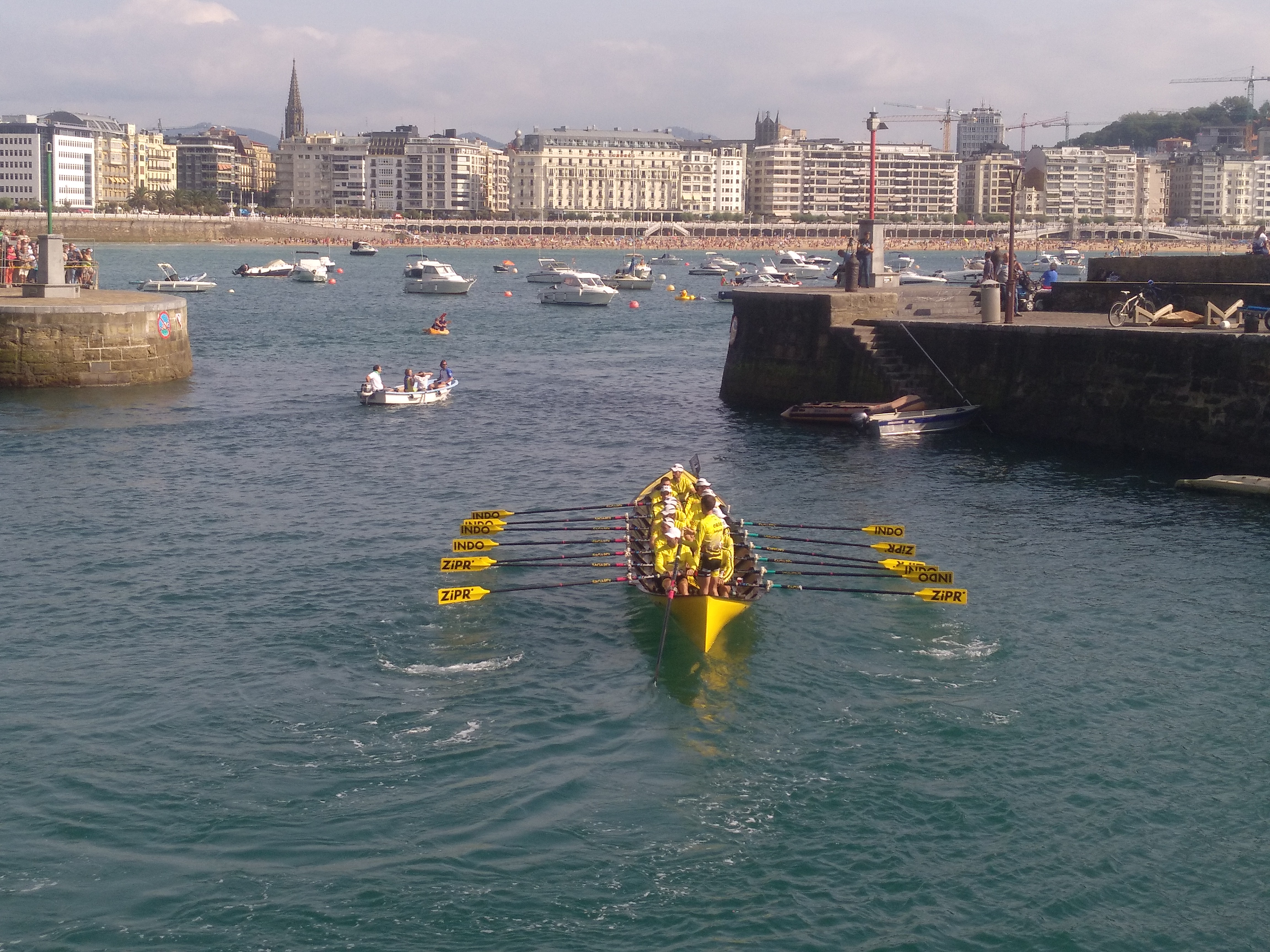 Orio Arraunketa Elkartea, Flag of La Concha, 2018